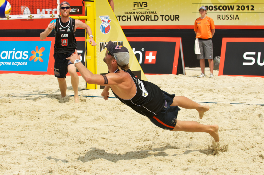 Grand Slam Moscow 2012